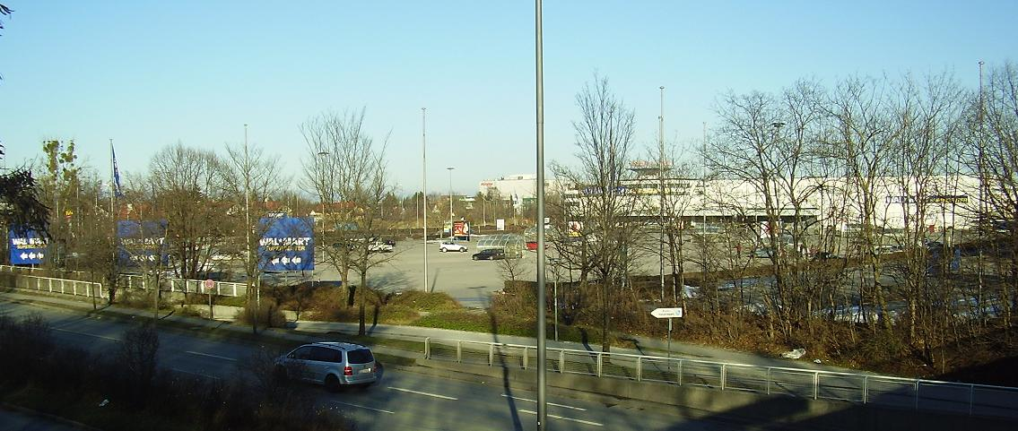 Euro-Industriepark in München (Munich / Germany) (Photography from South-West site; Ingolstädter Straße)